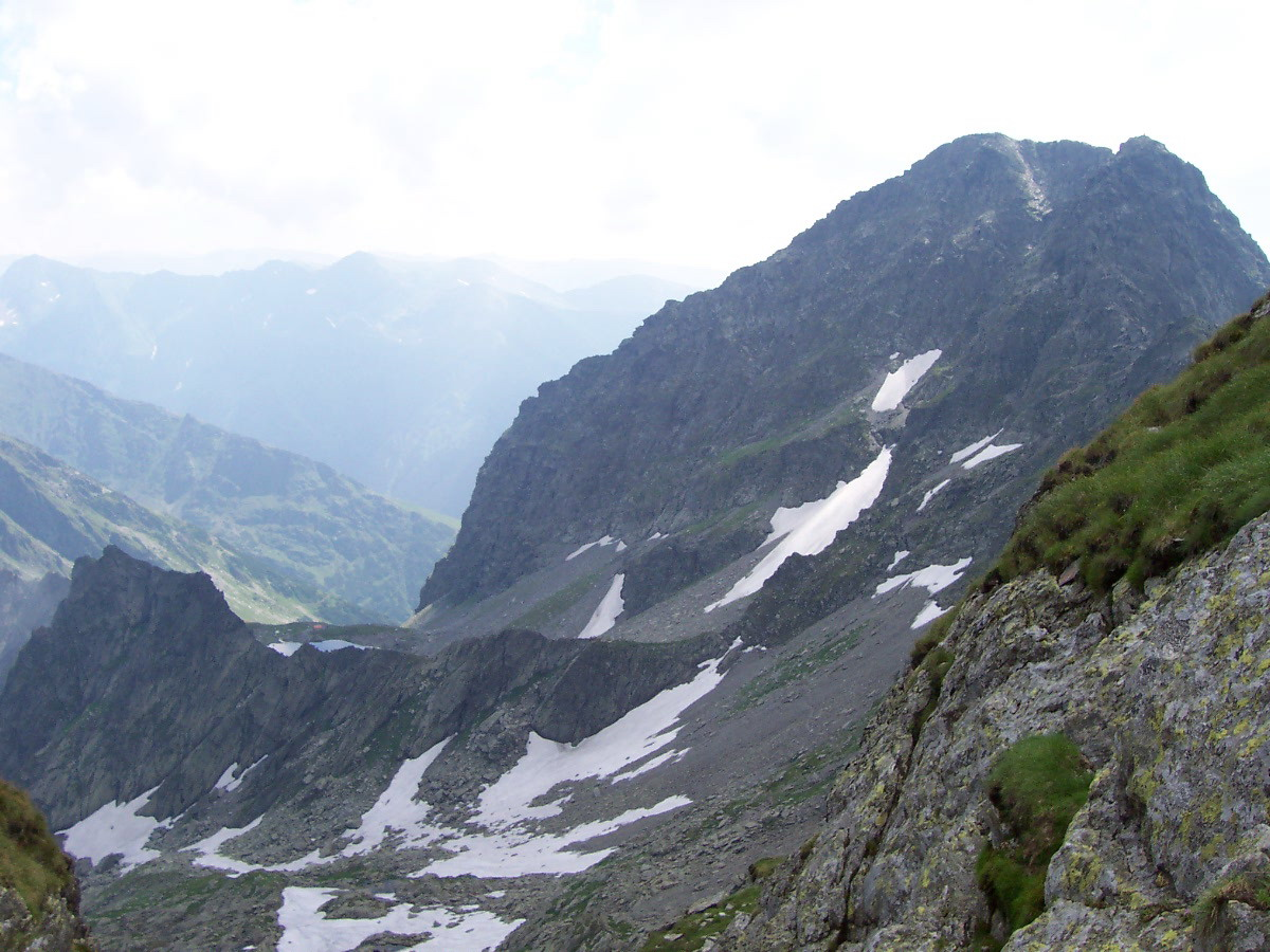 Călţun mount, Romania